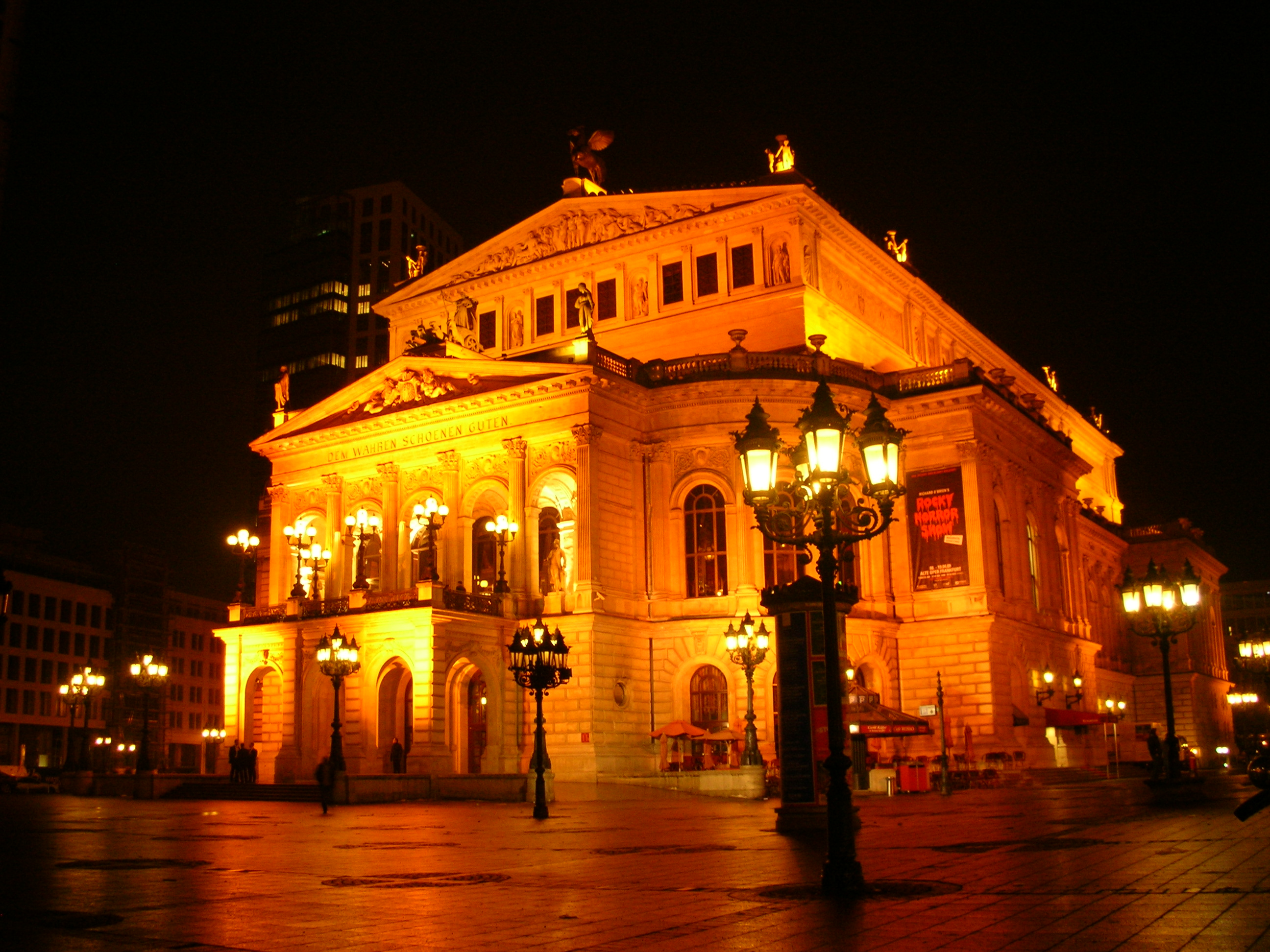 Opera House - Frankfurt